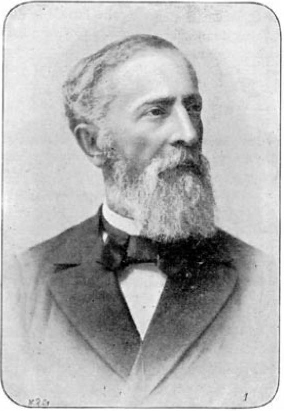 head of the organisation team 1896